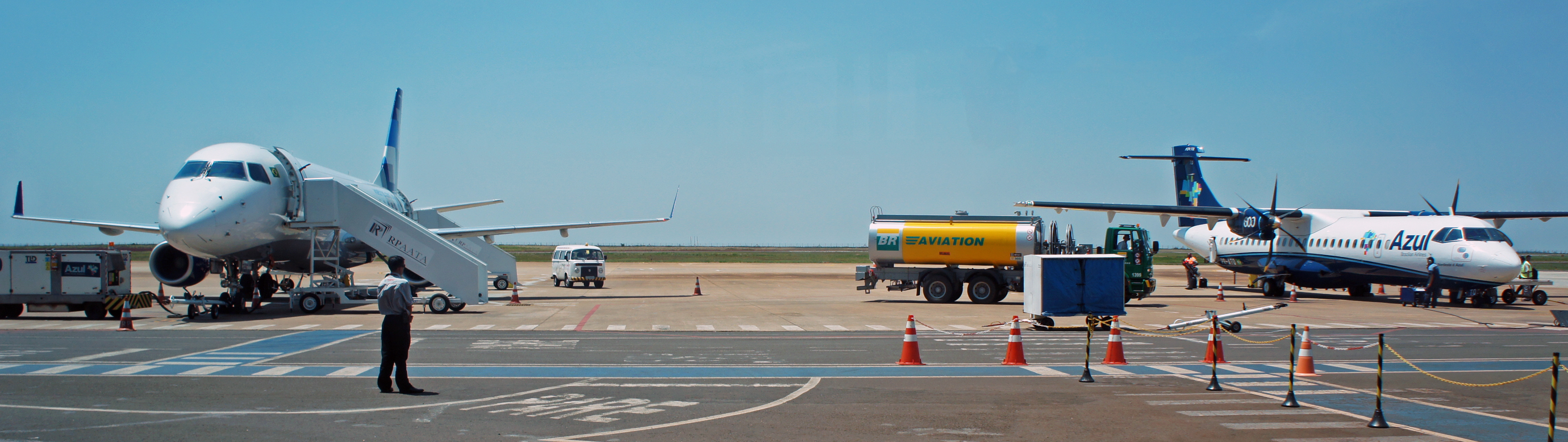 An Embraer 175 from TRIP Linhas Aéreas (left) and an ATR72-600 from Azul Linhas Aéreas Brasileiras (right) at Maringá Regional Airport, Maringá, Paraná, Brazil